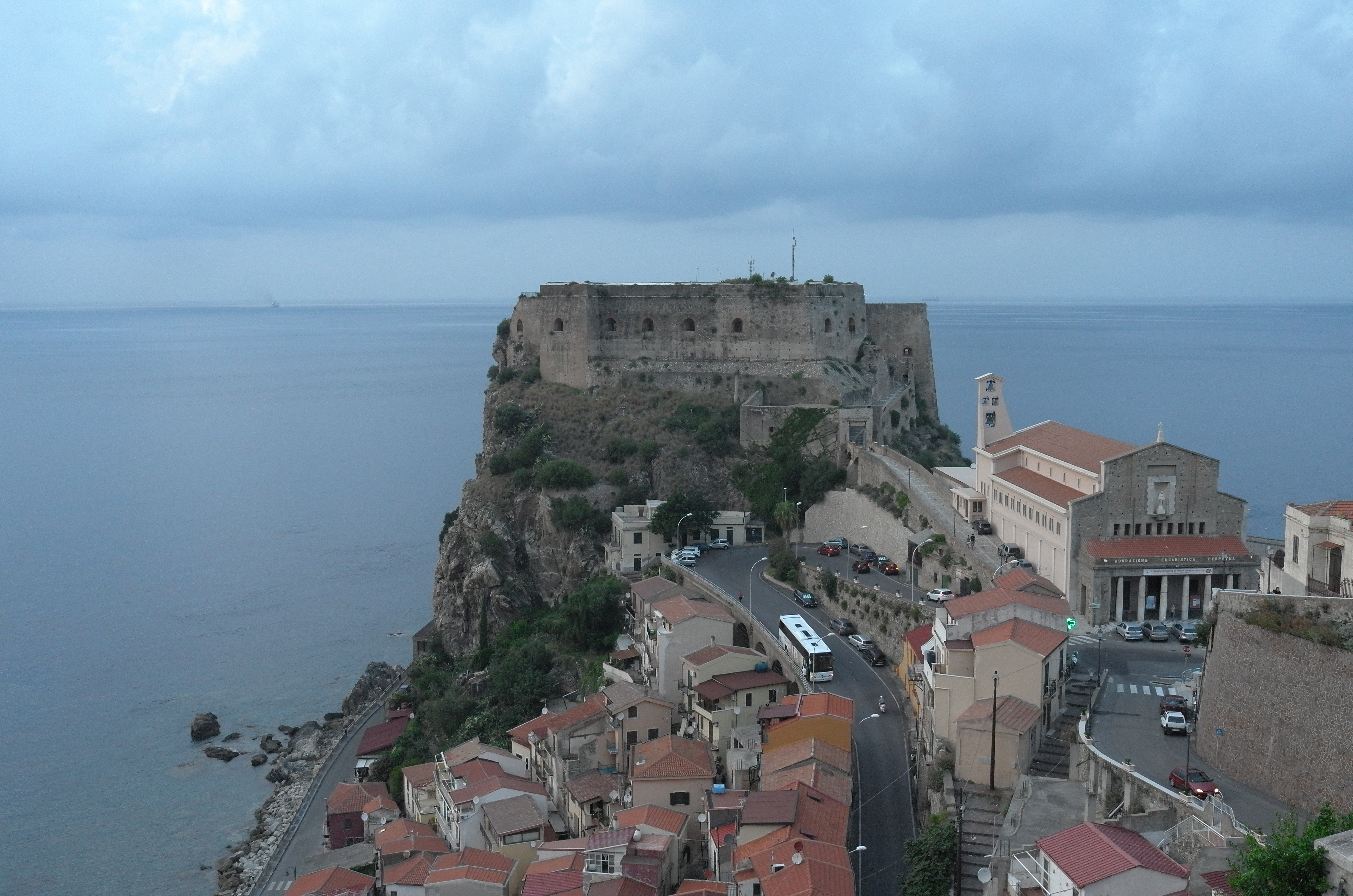 Drone aerial view of Castello Ruffo, Scilla, Italy